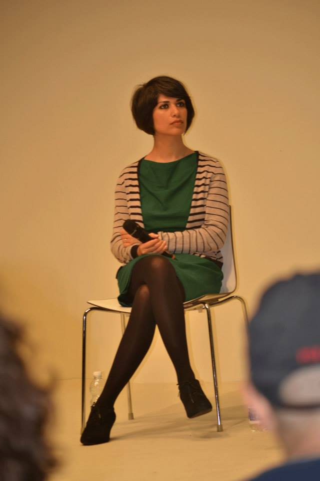 Portrait photo of author